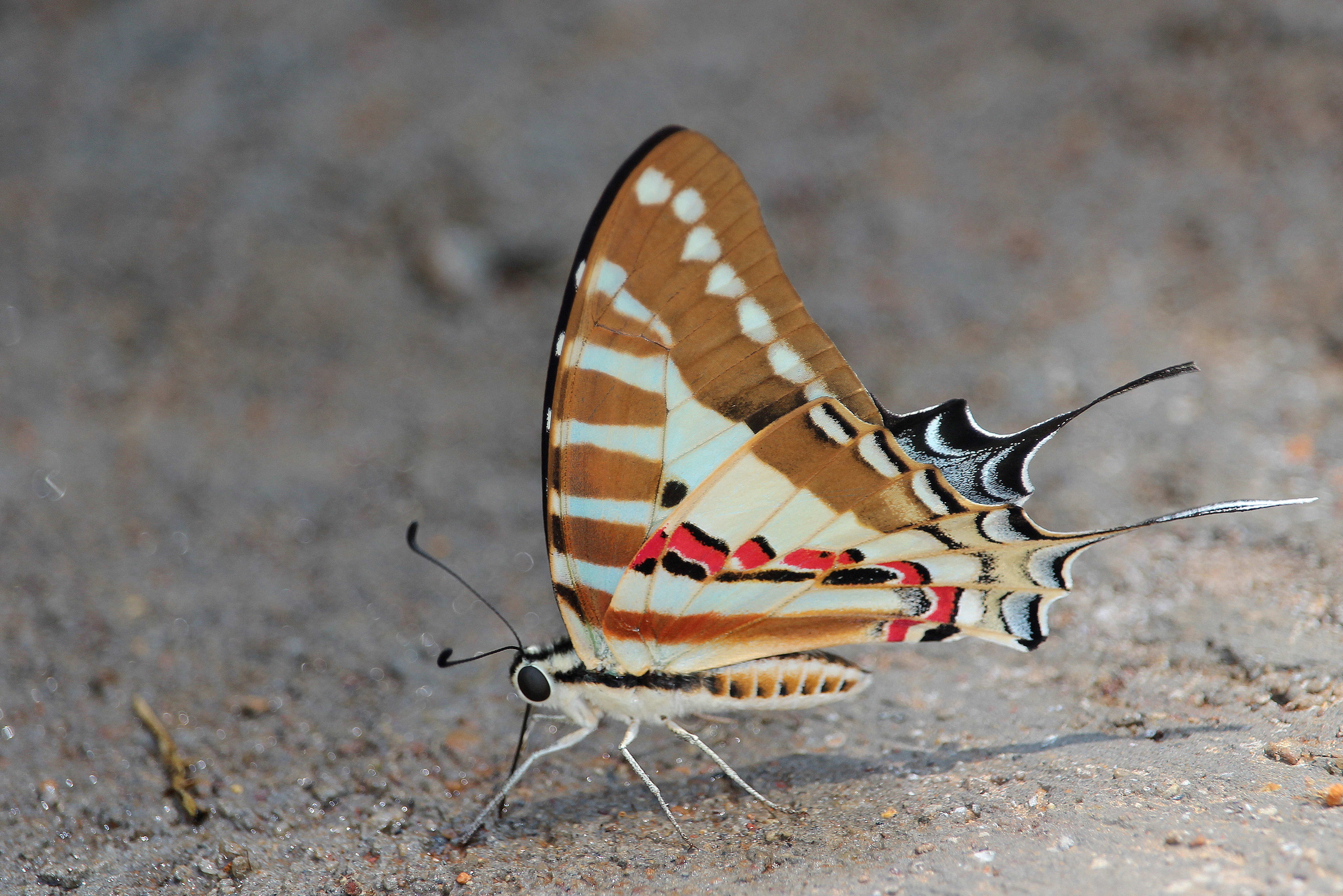 Spot sword Tail Butterfly from Kannur, Kerala